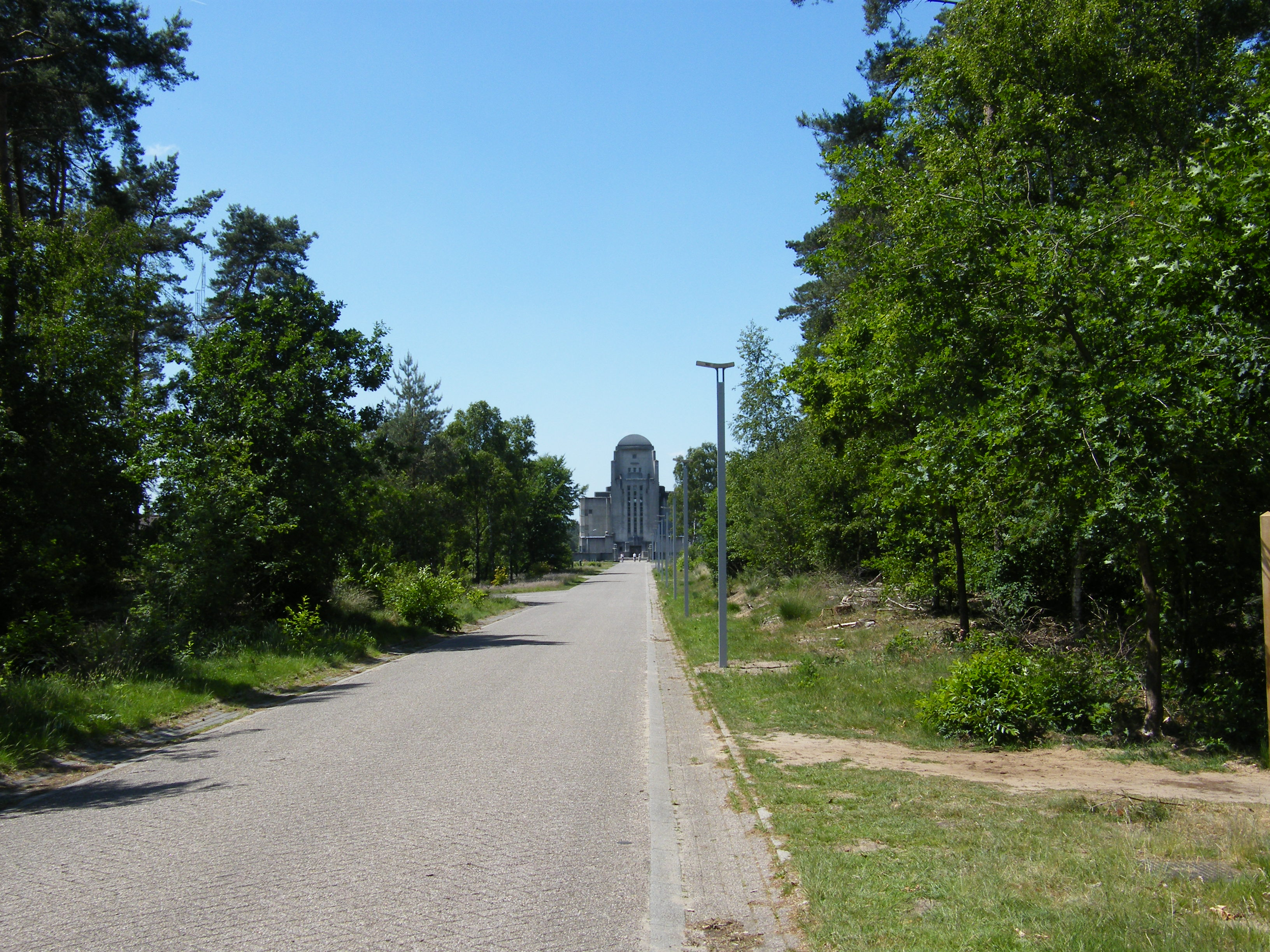 Building A, Radio Kootwijk